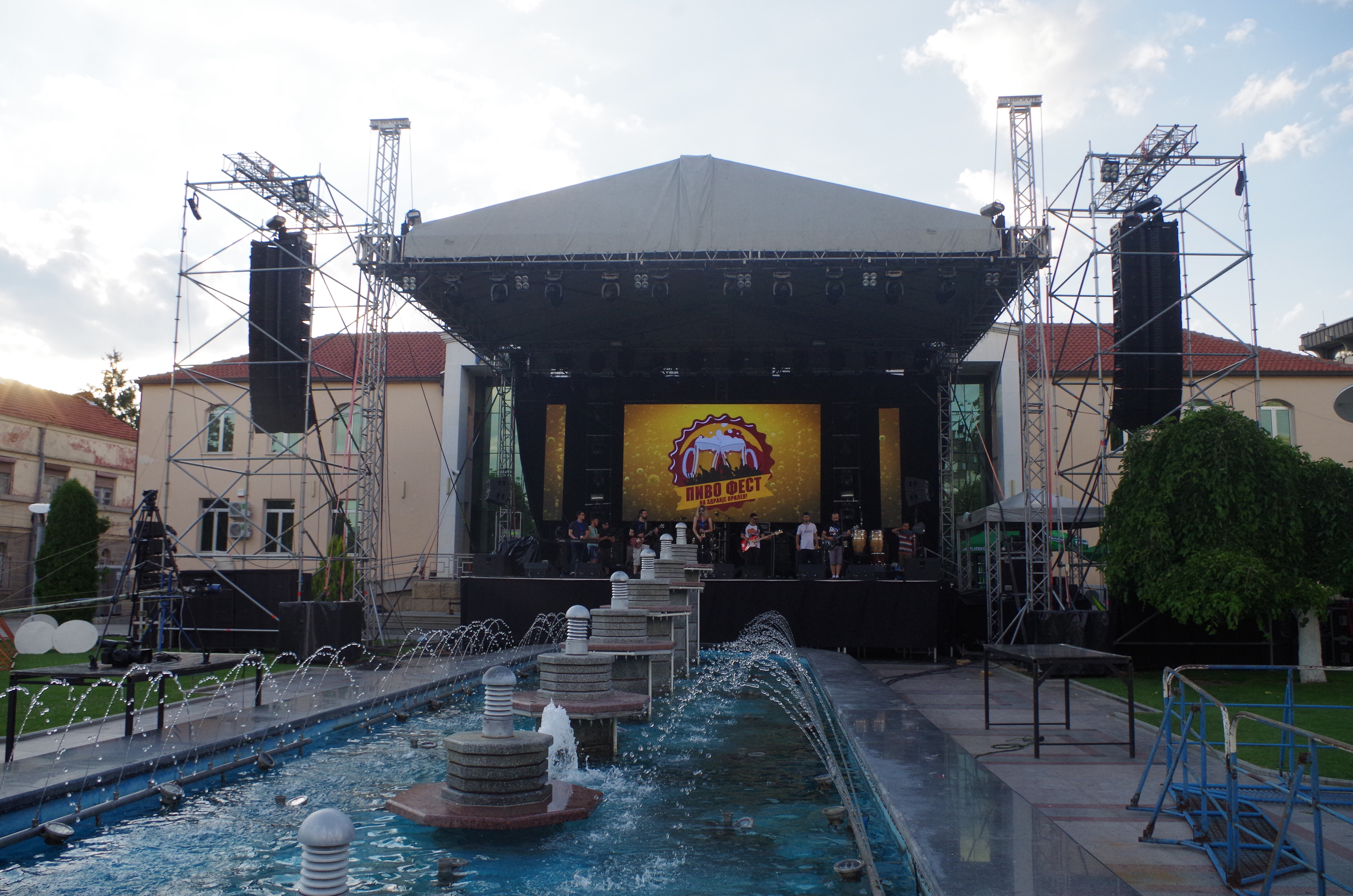 Beer festival 2018 in Prilep, Macedonia